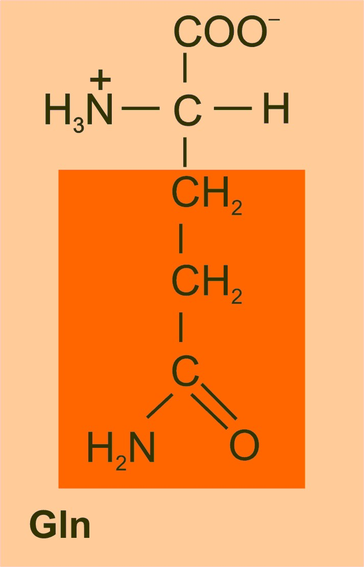 Glutamine amino acid formula jpg